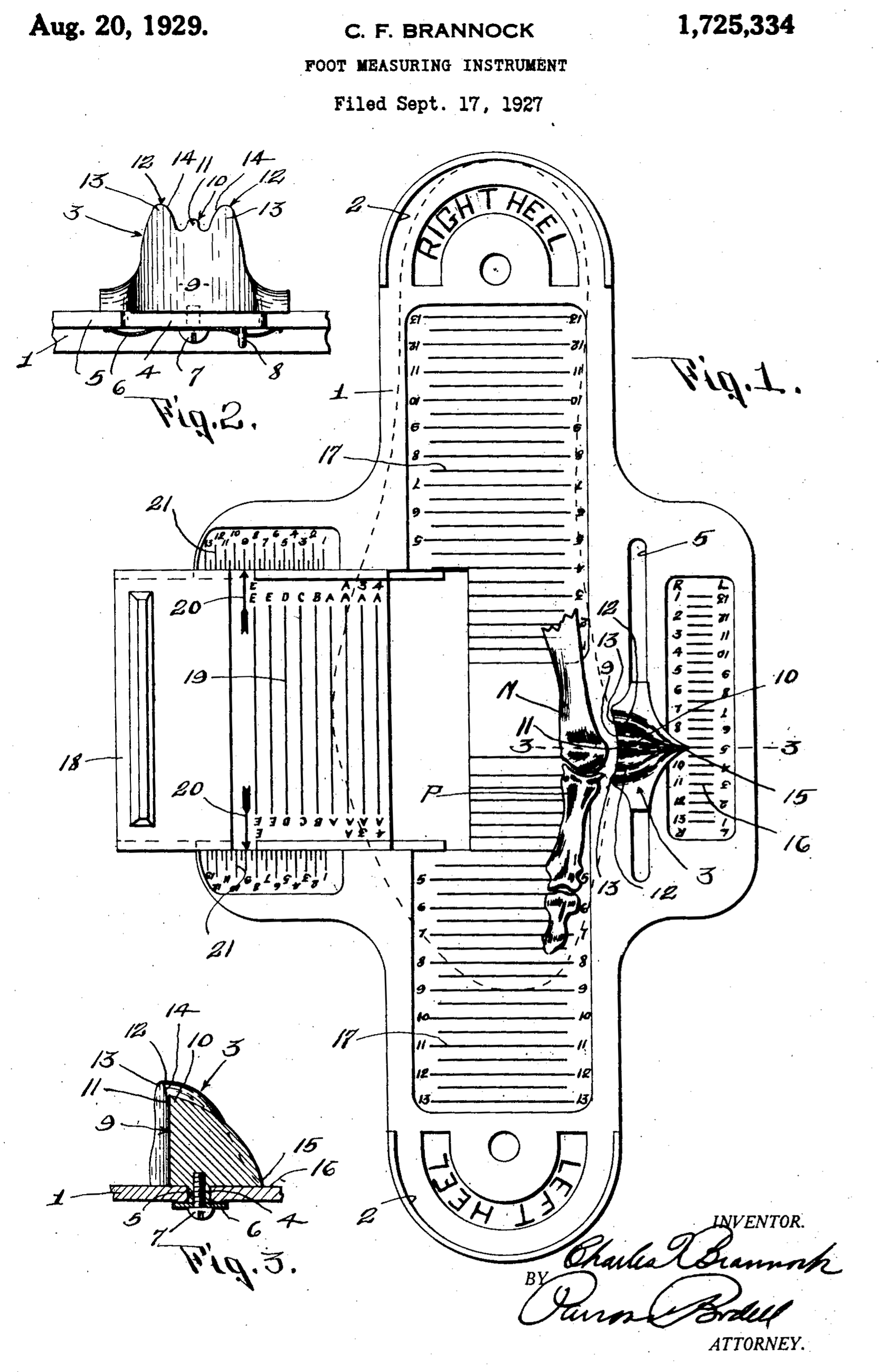 Drawing showing a Brannock Device, taken from US Patent 1,725,334.